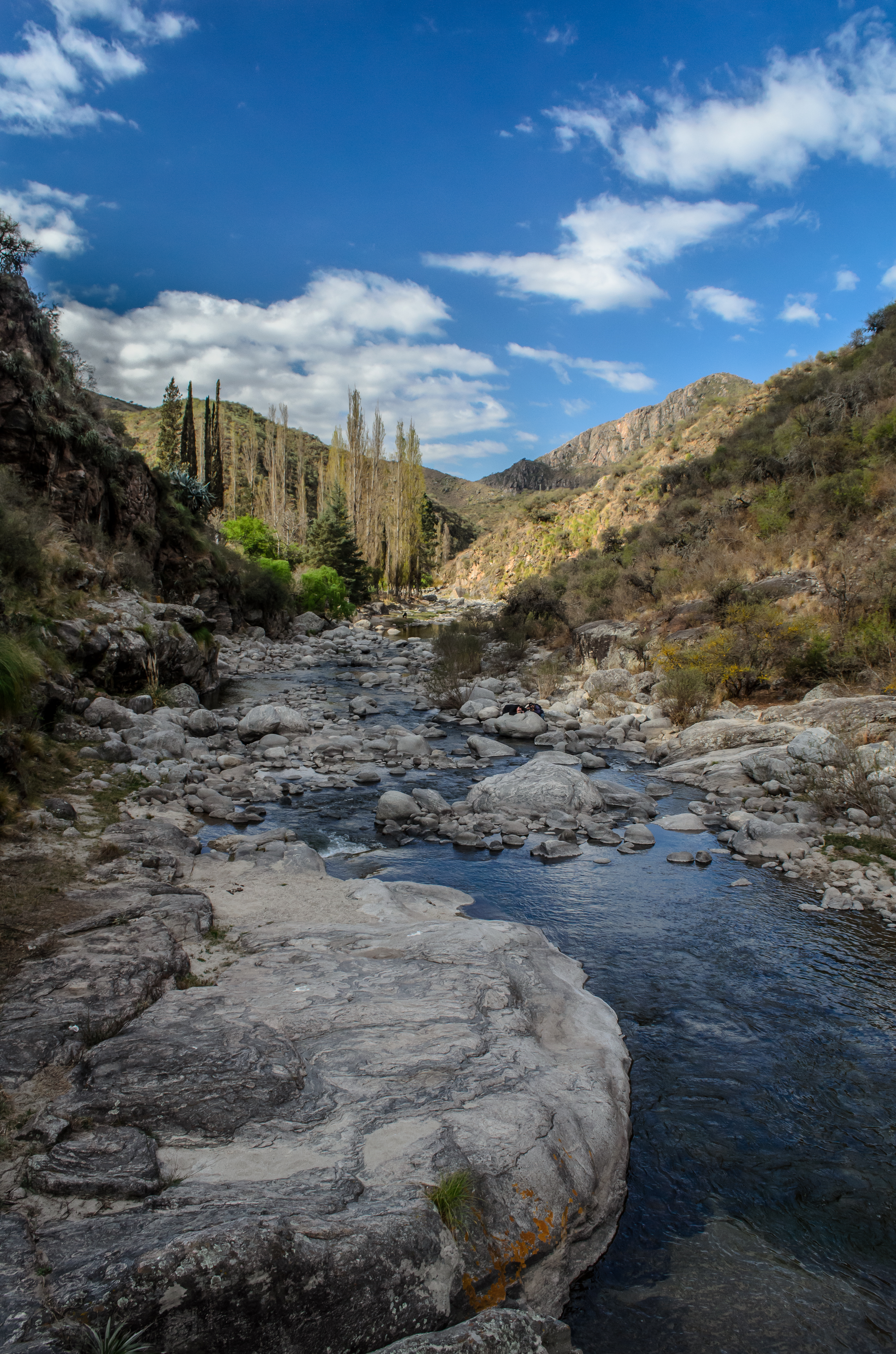 Catamarca. Departamento ambato